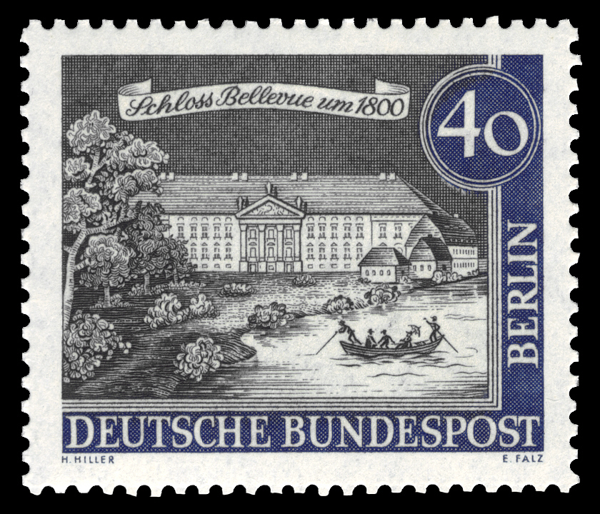 Stamp series Historical Berlin